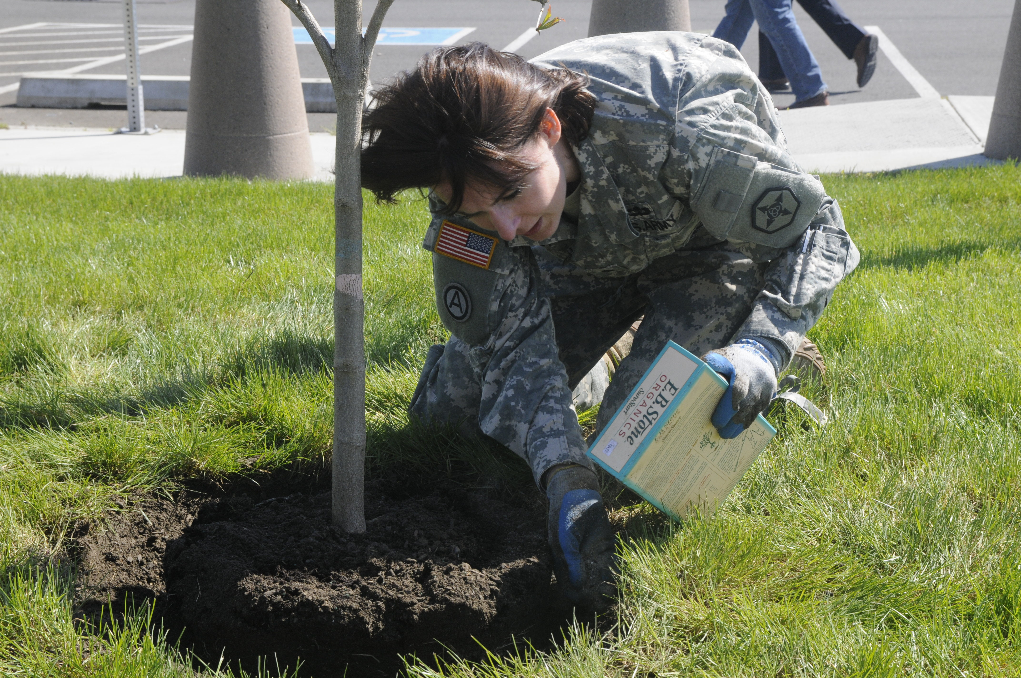 U.S. Army Sgt. 1st Class Adrian Bennett with the 364th Sustainment Command fertilizes newly-planted trees during the unit's commemoration of Earth Day in Marysville, Wash., April 22, 2013. The annual event, celebrated since 1970, is held worldwide to demonstrate support for environmental protection.